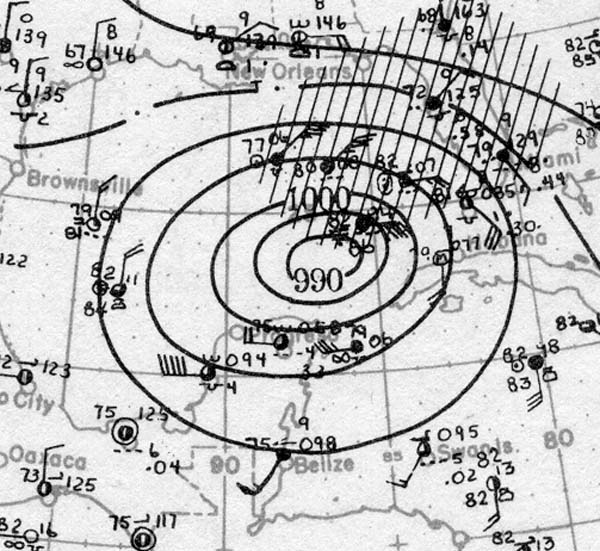 Surface weather analysis of the sixth hurricane of the 1921 Atlantic hurricane season on October 24, 1921.